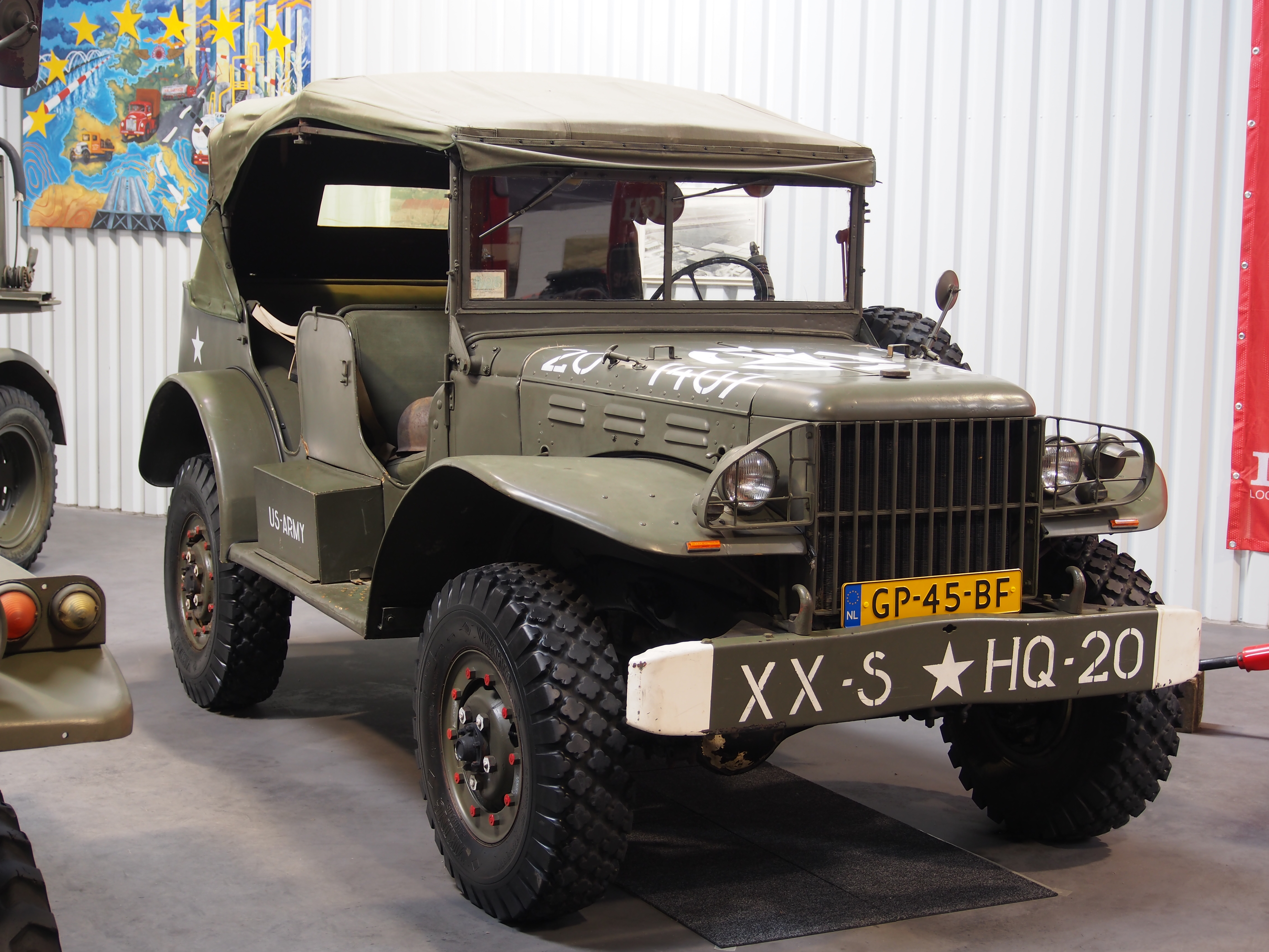 Photographed at the Hyacintenrit 2013 stop in the Jack den Hartogh oldtimer truck mueseum.